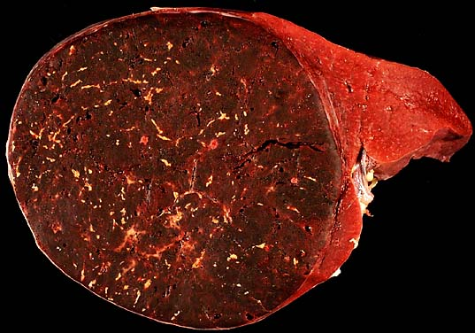 Hamartoma of the spleen A young man presented with left upper quadrant abdominal pain. On evaluation, a CT scan showed an enlarged spleen. He was worked up for lymphoma/leukemia, but nothing abnormal was found. CBC and bone marrow biopsy were normal. He was referred to a general surgeon for splenectomy. The specimen was a spleen containing a solitary 9-cm dark red mass that protruded above the surface of the adjacent spleen on section. The photo shows a slice through the specimen to show the tumor on the left and the normal splenic tissue on the right of the image. These fairly rare lesions are usually smaller and discovered incidentally at autopsy or splenectomy for unrelated purpose, but some larger lesions can produce pain. Unlike angiomas of the spleen, hamartomas rarely cause peripheral cytopenias. Photograph by Ed Uthman, MD. Public domain. Posted 2 Jan 99